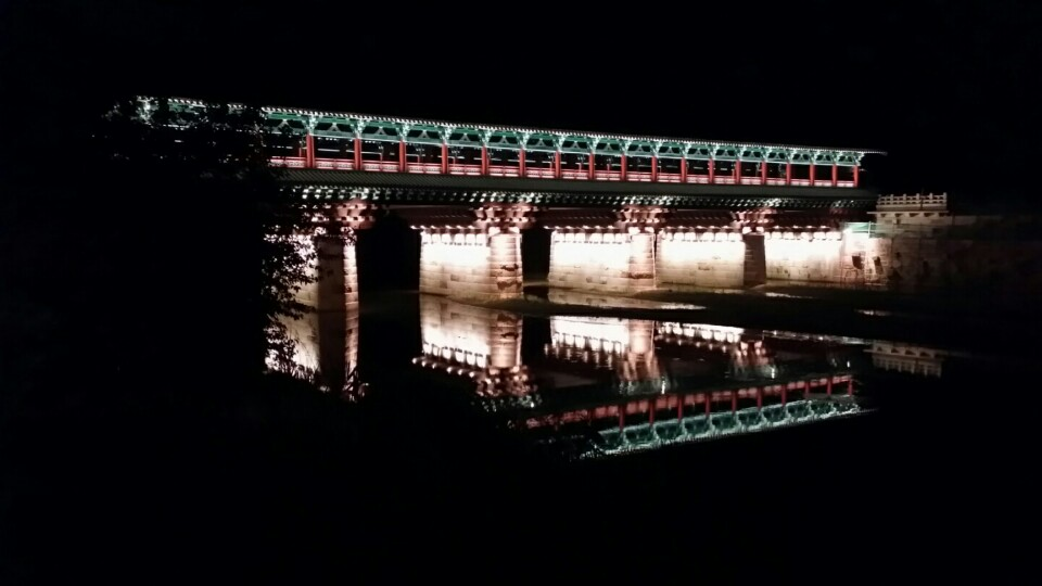 Night View of Restored Woljeong-gyo